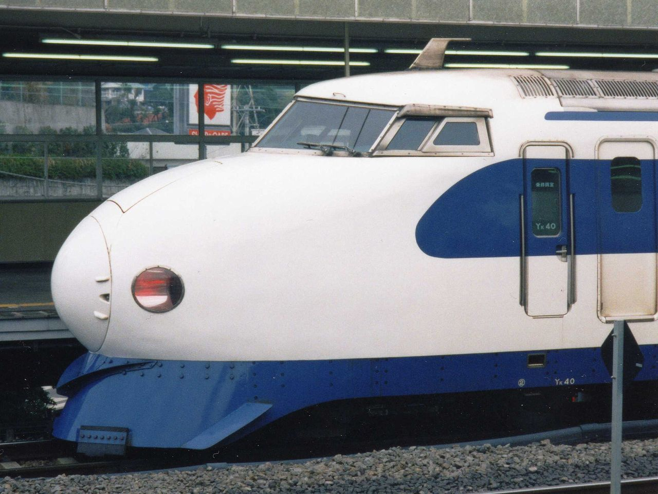 Central Japan Railway Company, Shinkansen Series 0.